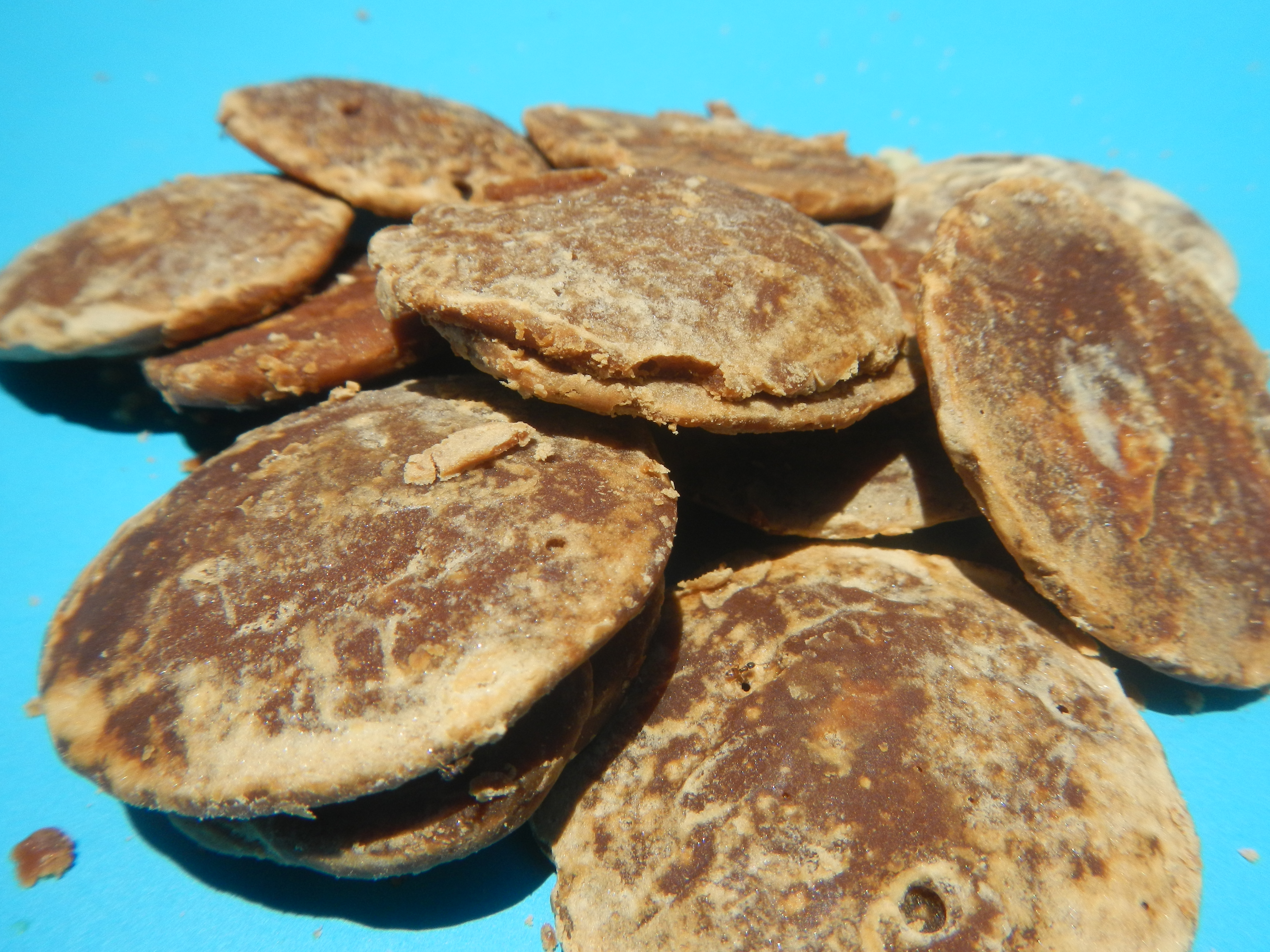 Gabi (Philippines) Philippine cuisine SaMani peanut Panutsa Panutsa Pop rice (Philippines) Puffed rice Puto Masa Barquillos of the Philippines Tira-Tira Pastillas Milk Poste & Adik Turrones de Mani Coco Honey Bukayo Pakumbo Tahada photos taken in Barangay Poblacion 14°57'17"N 120°54'2"E Baliuag, Bulacan, Bulacan province (Note: Judge Florentino Floro, the owner, to repeat, Donor Florentino Floro of all these photos Judge Floro hereby donate gratuitously, freely and unconditionally all these photos to and for Wikimedia Commons, exclusively, for public use of the public domain, and again without any condition whatsoever).